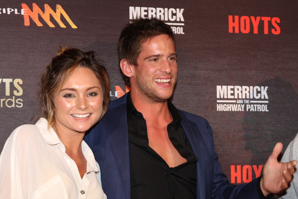 Australian actor Dan Ewing and celebrity Marnie Little at the premier of The Nullarbor Nymph at Entertainment Quarter, Fox Studios, Sydney